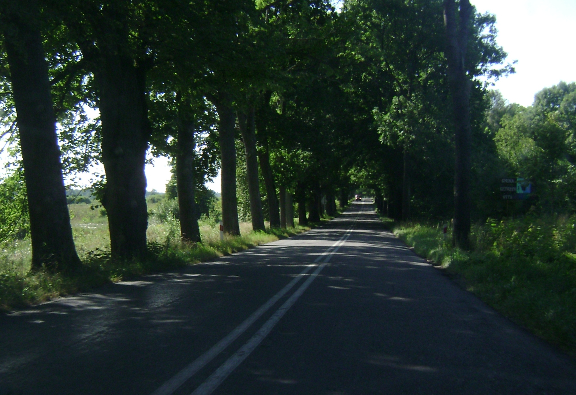 Poland. Gmina Kętrzyn. Voivodeship road 592